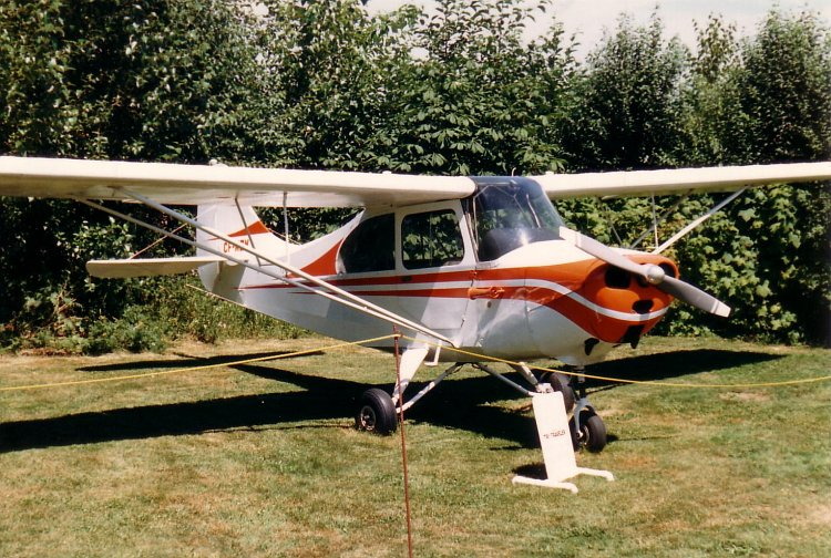 Champion Tri-Traveller at the Canadian Museum of Flight on 23 July 1988.